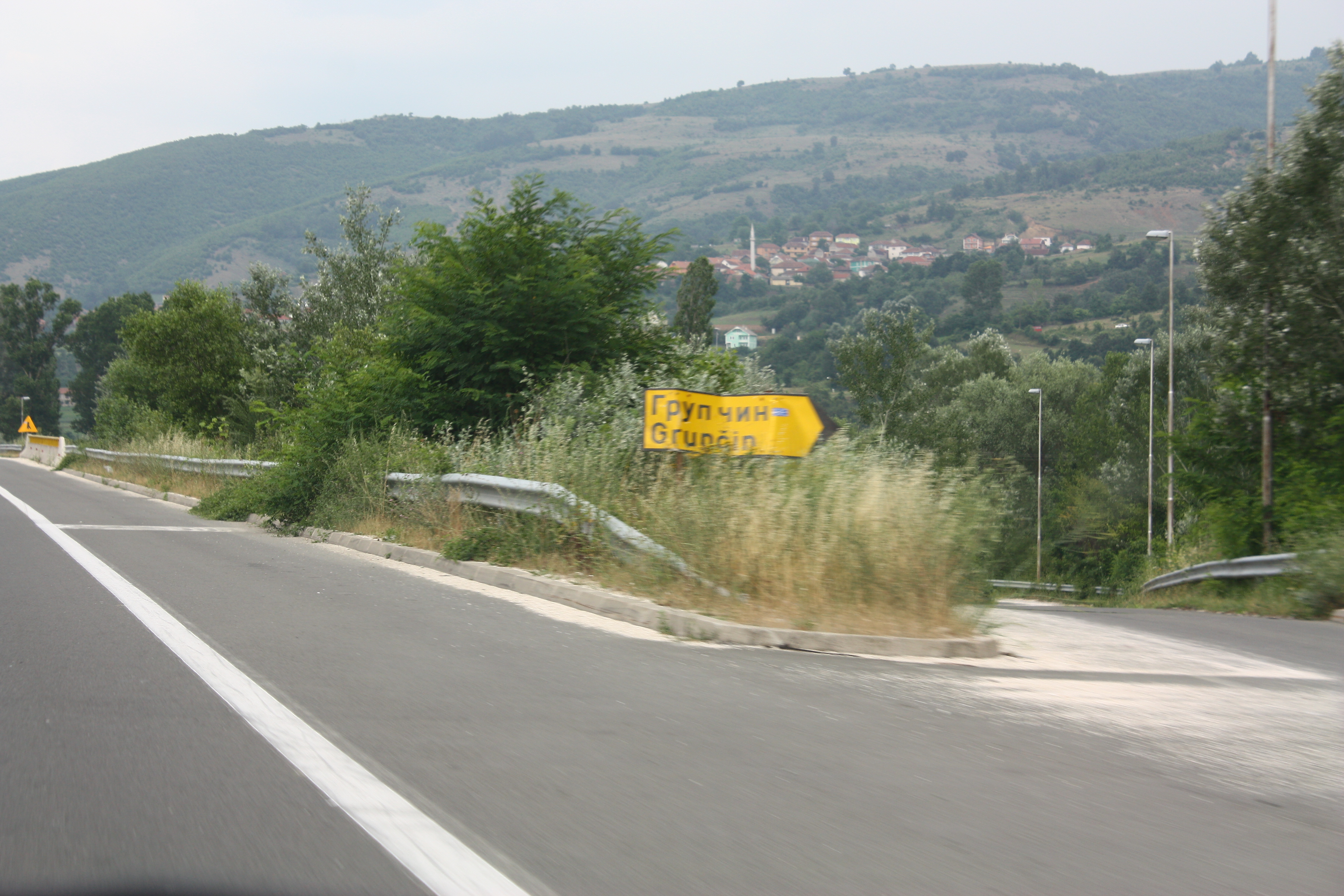 Kopačin Dol. Macedonia